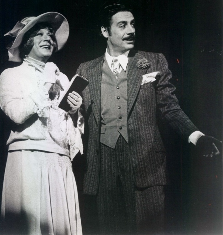 Publicity still from the original production of musical Chicago of characters Mary Sunshine (played by Michael O'Haughey) and Billy Flynn (played by Jerry Orbach) taken circa 1976